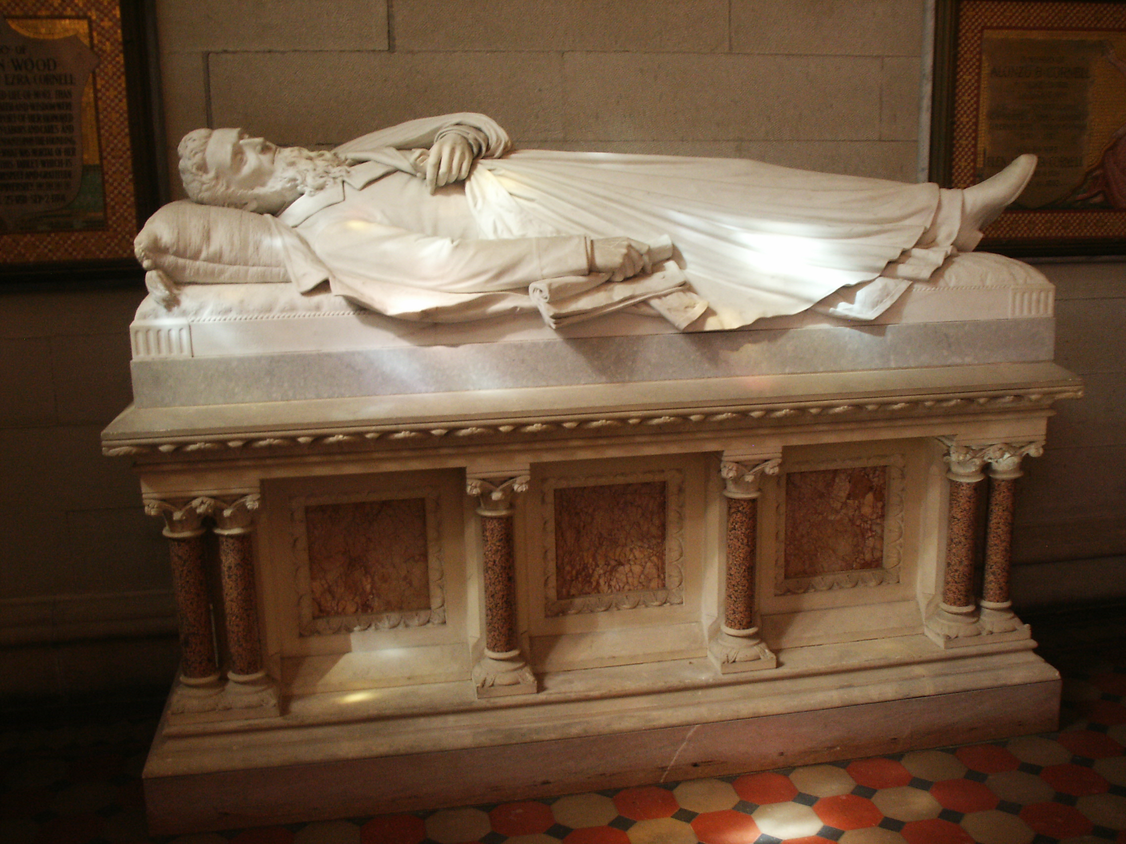 The sarcophagus of Cornell University's co-founder and first president Ezra Cornell located in Sage Chapel on Cornell's campus in Ithaca.